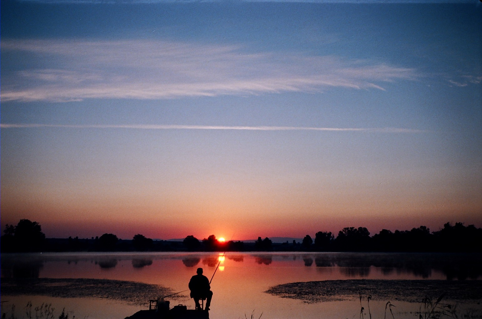 Oblačina Lake, near Merošina, Serbia